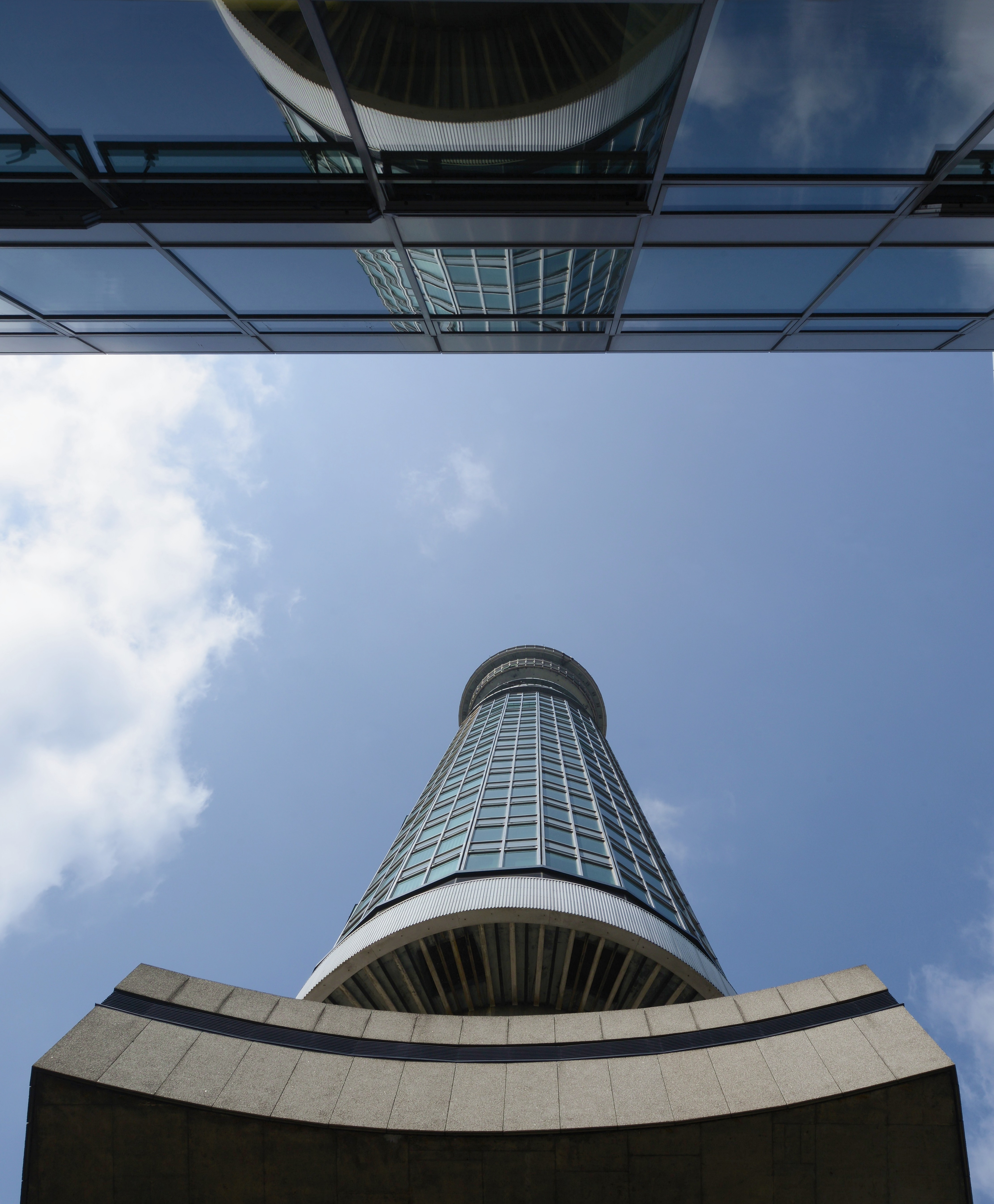 BT Tower, London